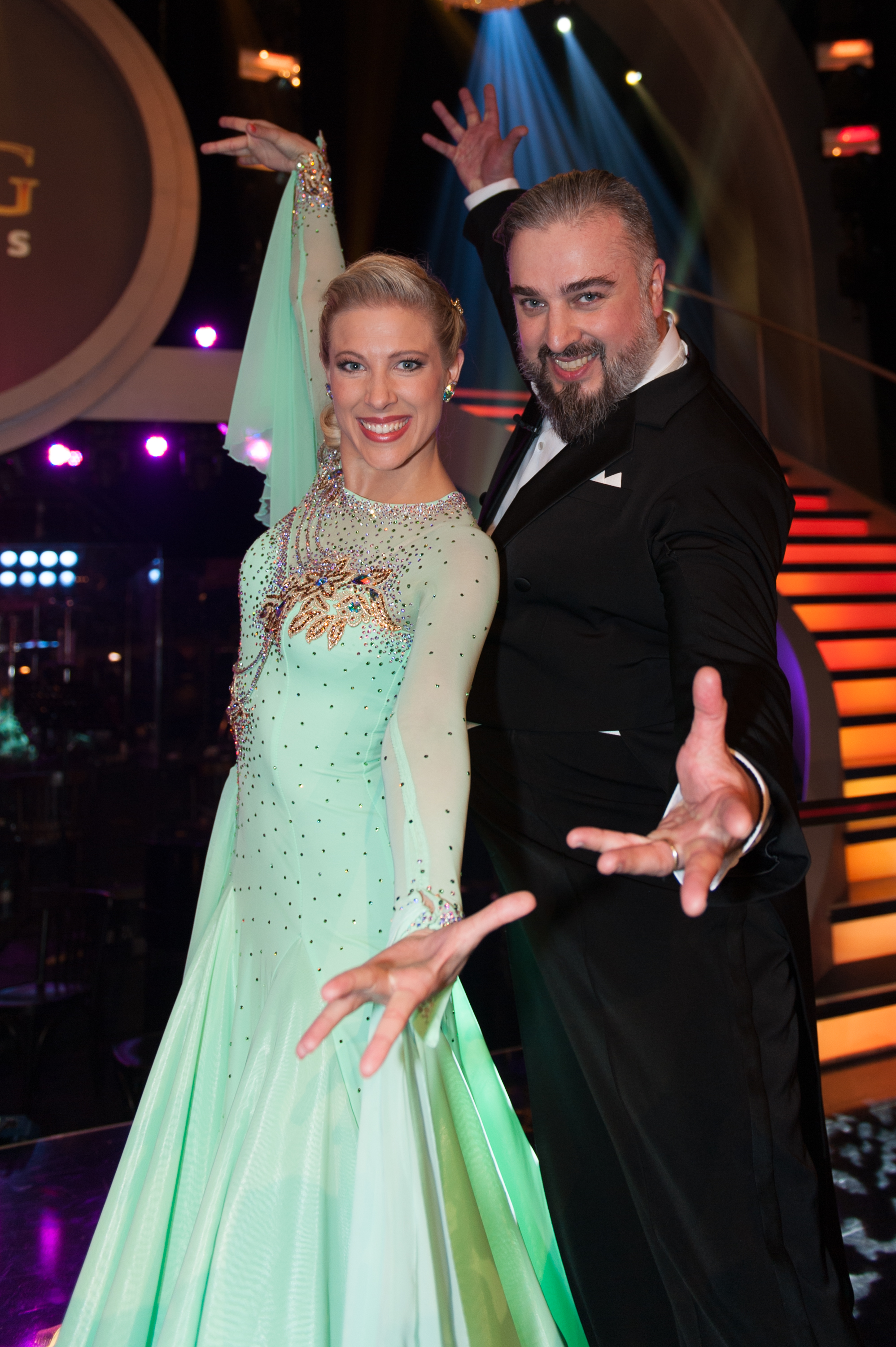 ORF Dancing Stars Opening 2016-03-04